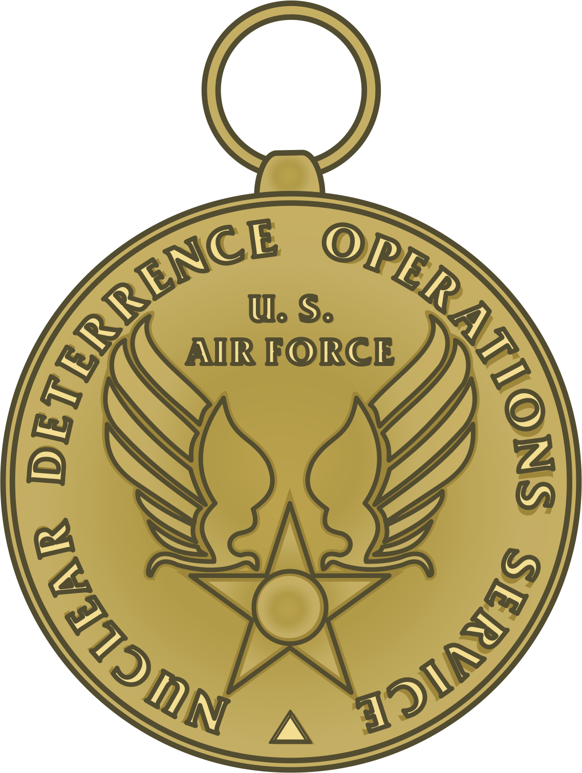 Graphic of the reverse of the U.S. Air Force's Nuclear Deterrence Operations Service Medal